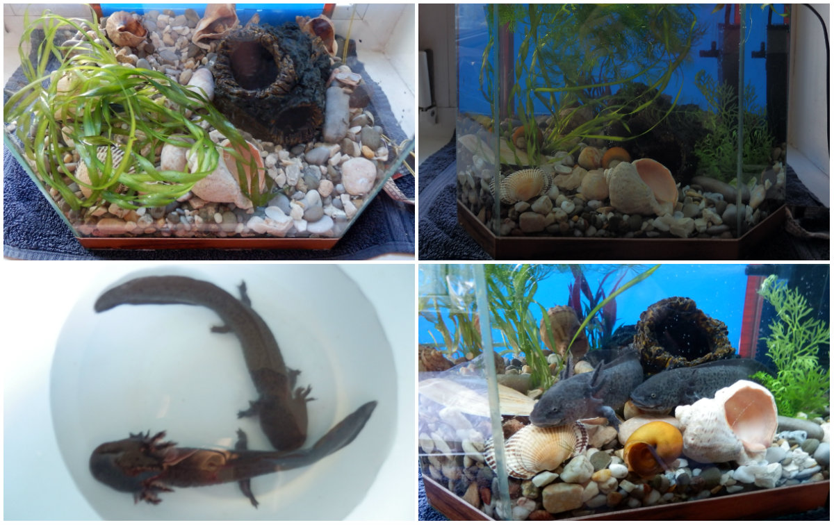 by Regina Kolyanovska